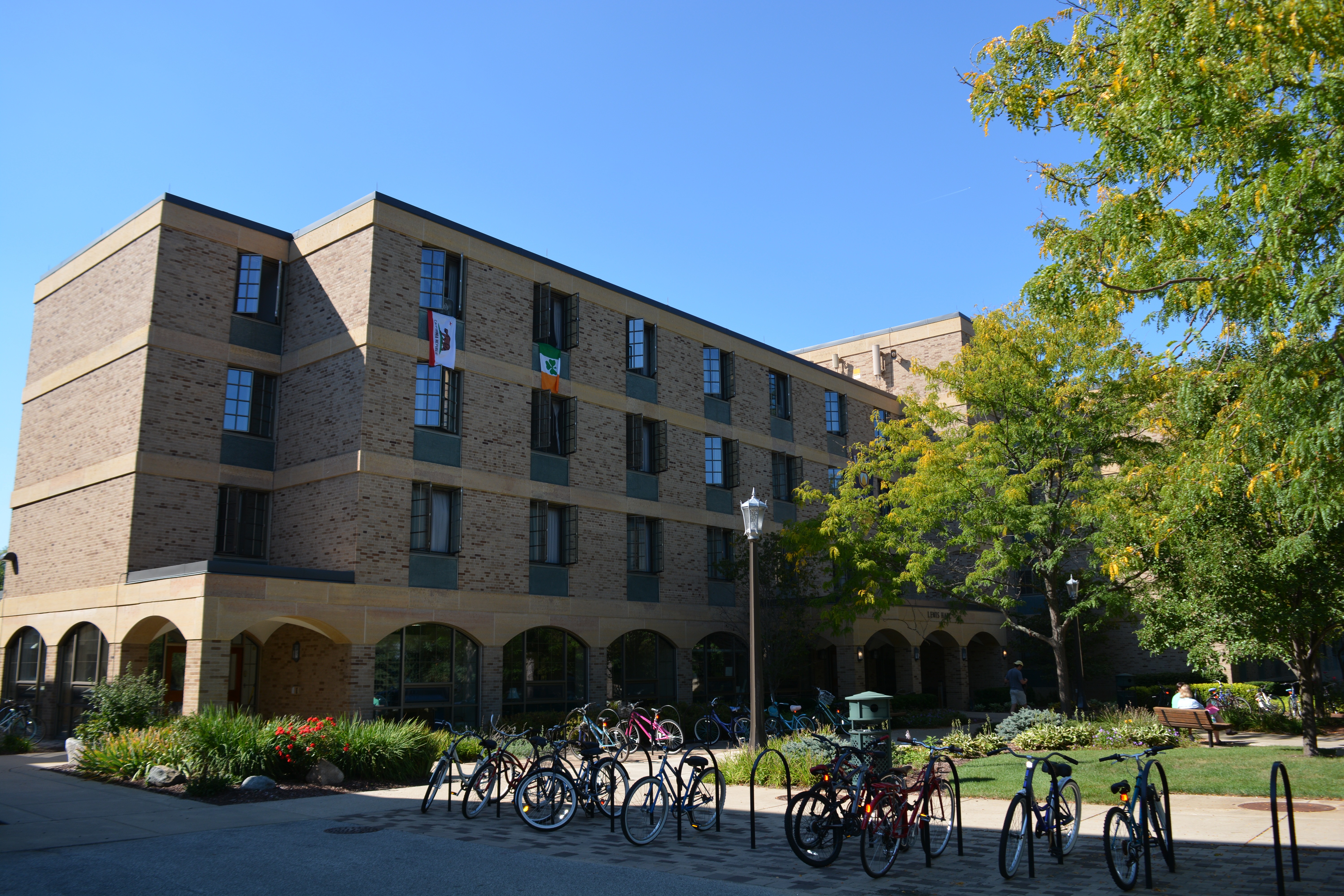 University of Notre Dame